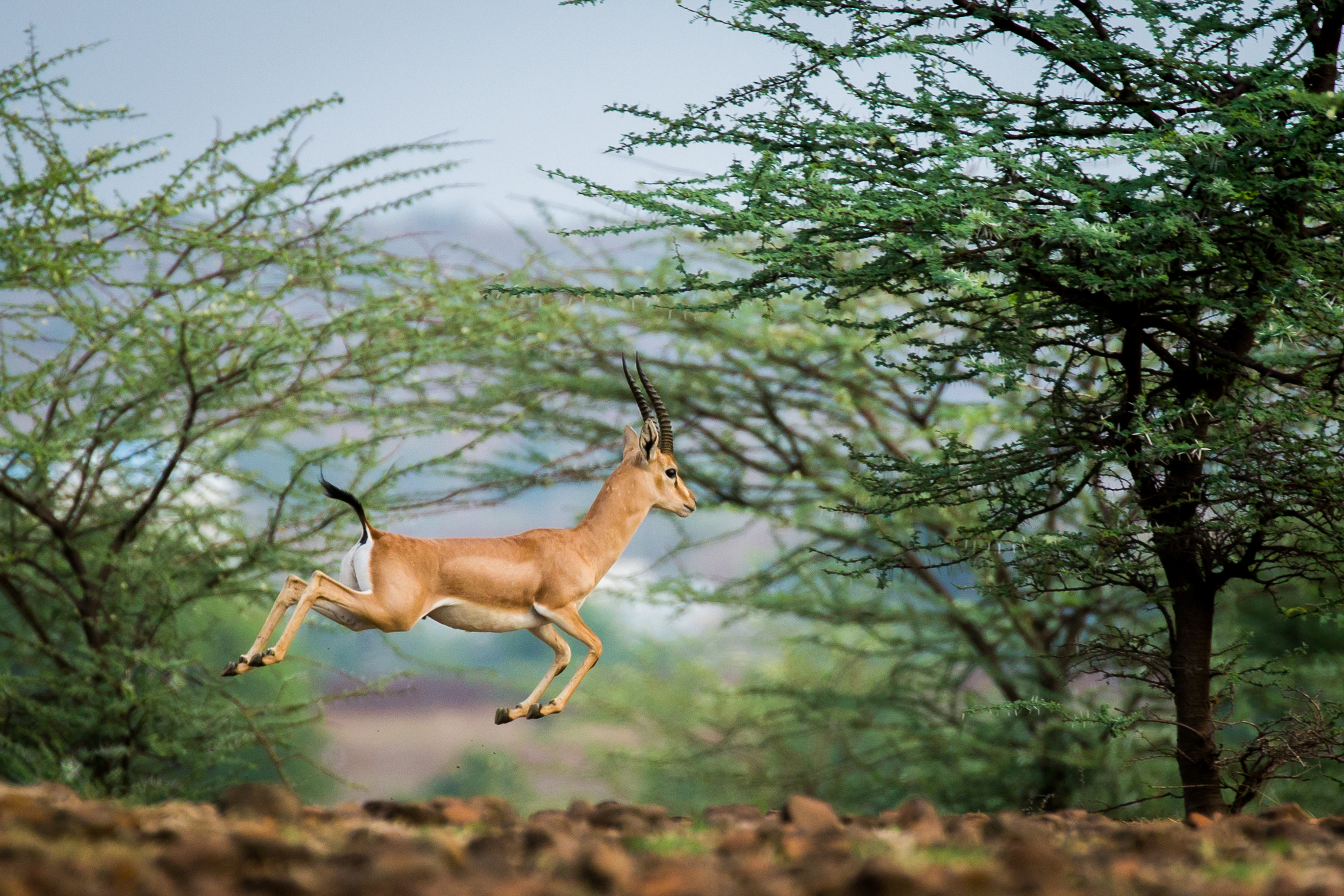 Chinkara mostly found in Mayureswar